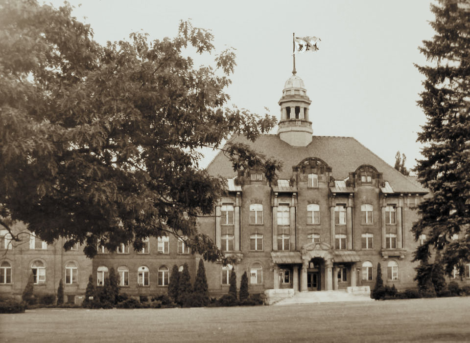 Main building, Macdonald College in the 1940's. From McGill University Archives